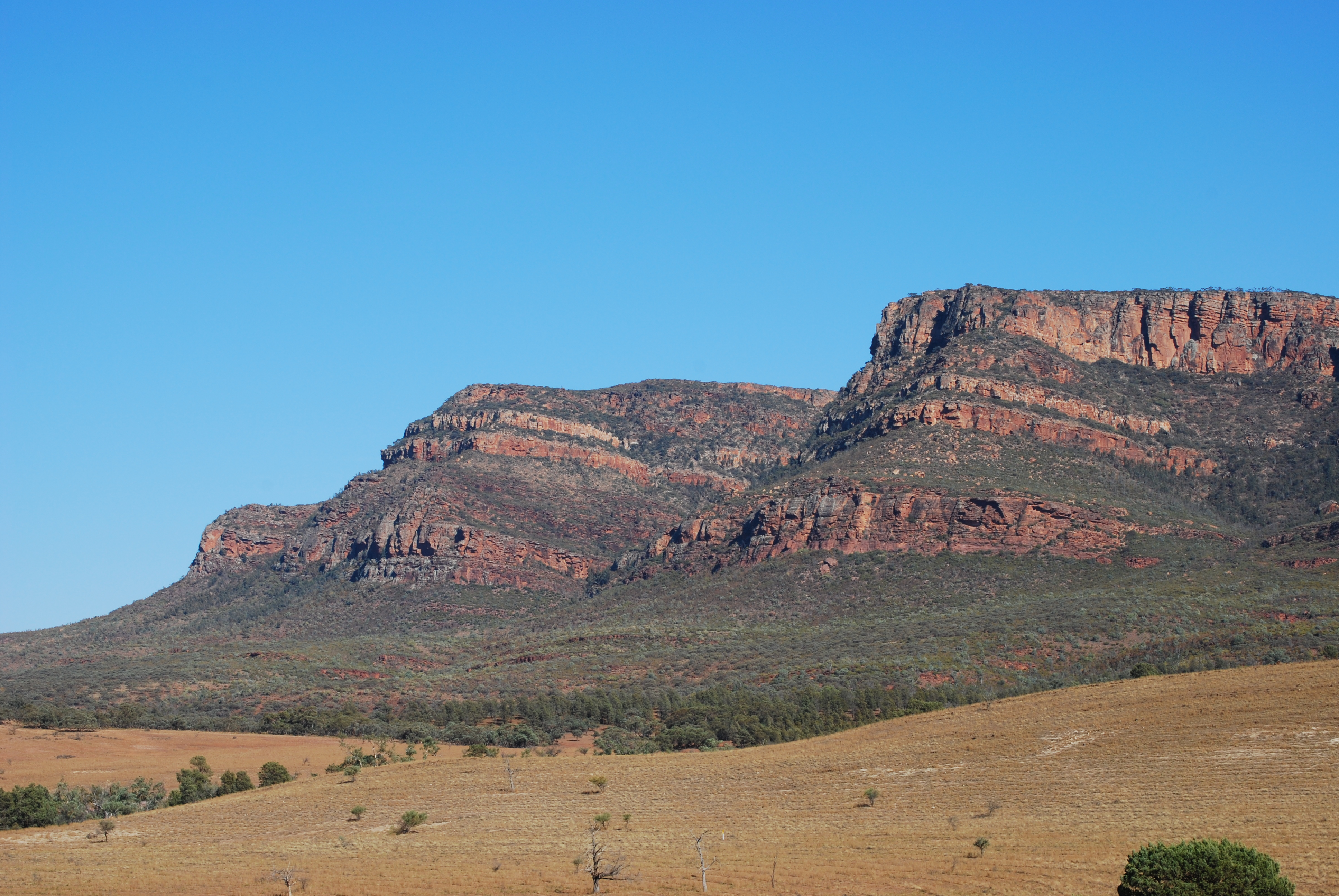 Wilpena Pound, Flinders Ranges - near Rawnsley's Bluff, South Australia